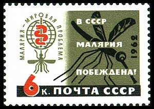 Stamp of USSR, number 2856. Painter - Ye. Aniskin